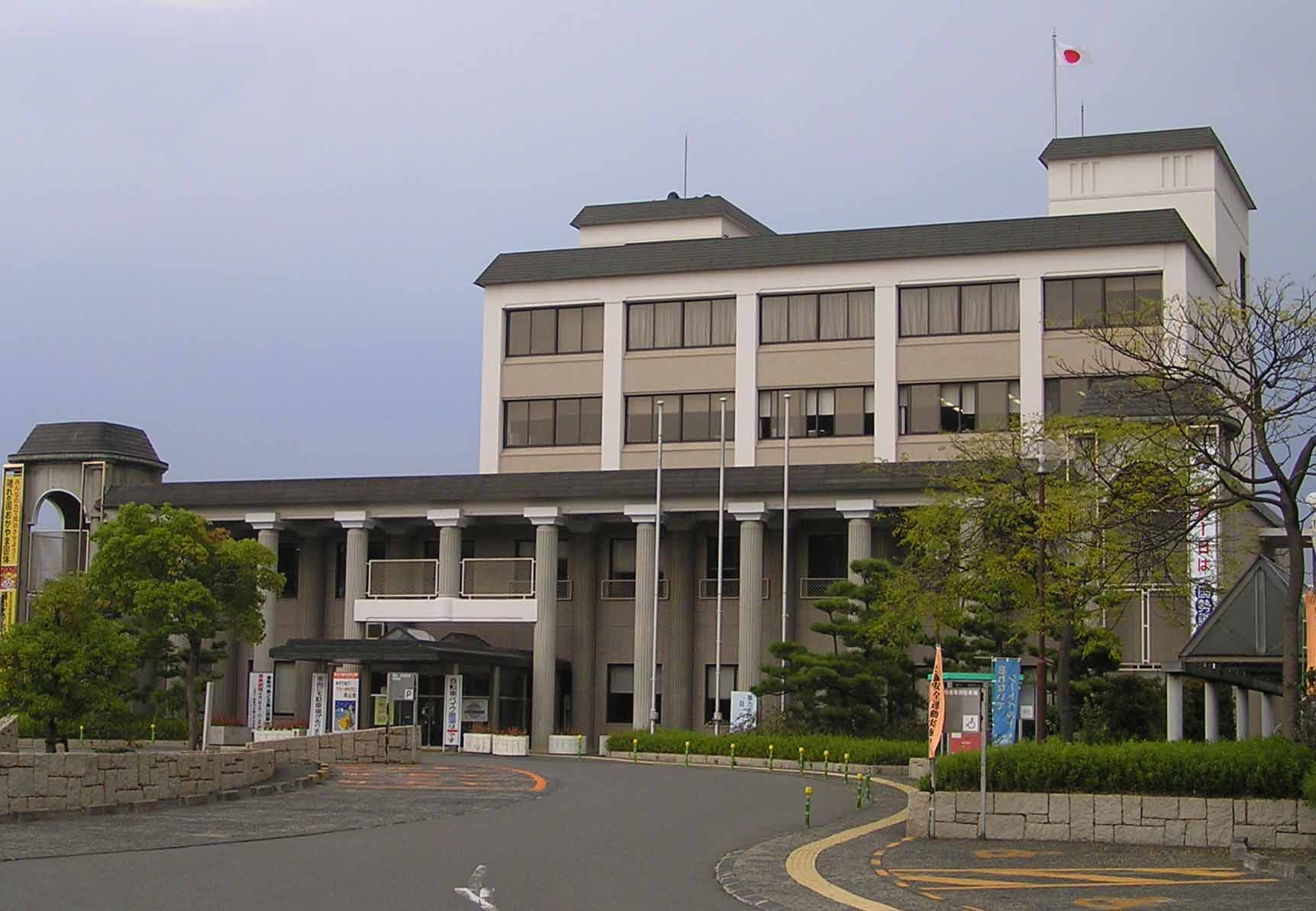 kurashiki city office tamashima branch